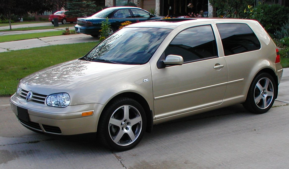 i owned this from 2002-2005